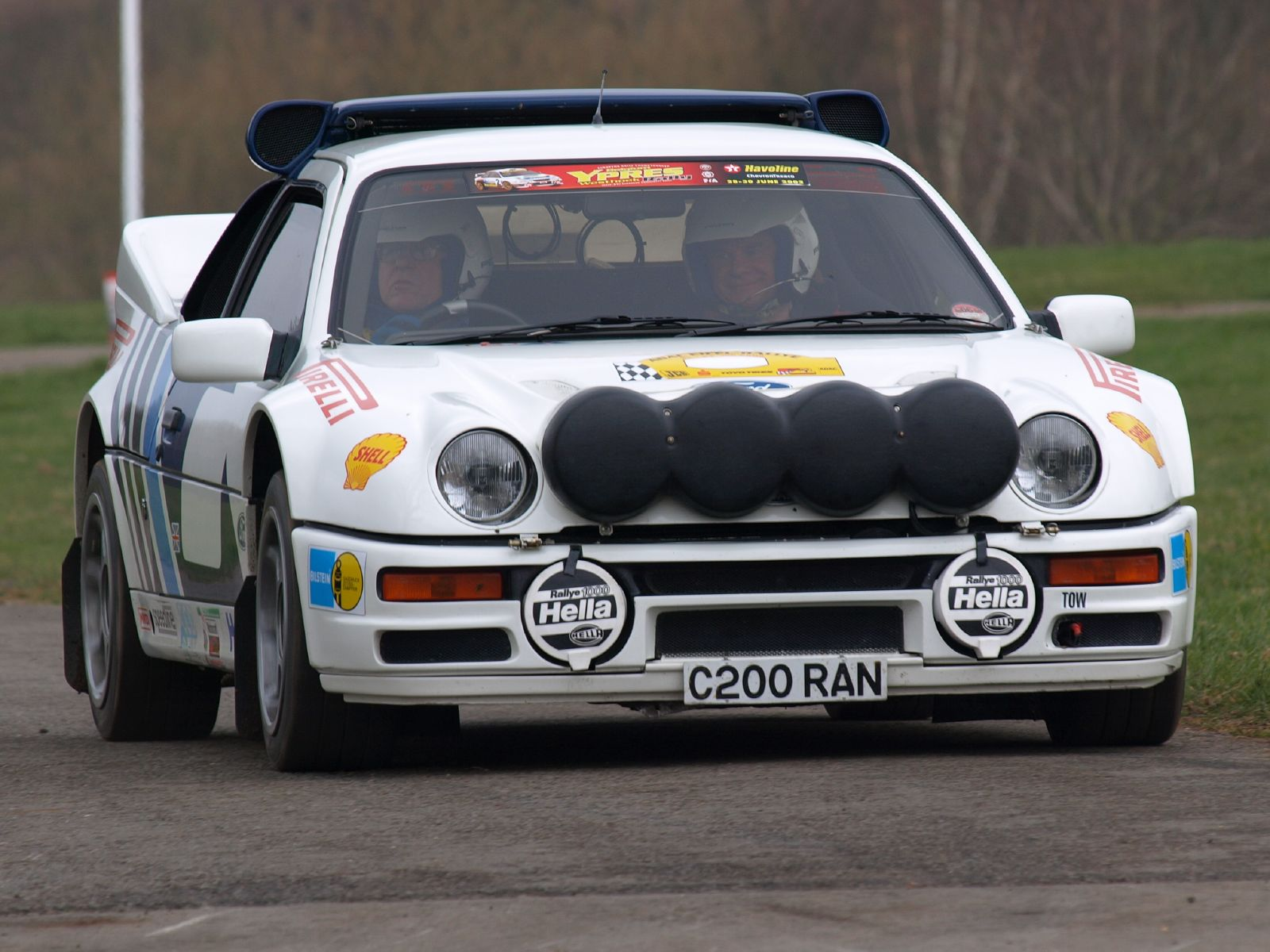 Ford RS200 driven at Race Retro 2008, the International Historic Motorsport Show, at Stoneleigh Park, Coventry, England.